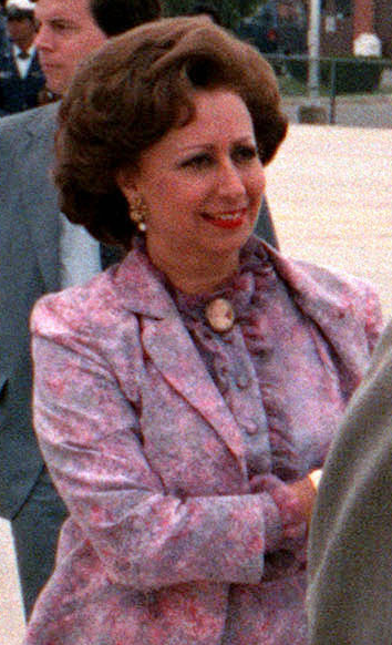 Manuela Ramalho Eanes, First Lady of Portugal, in 1983.